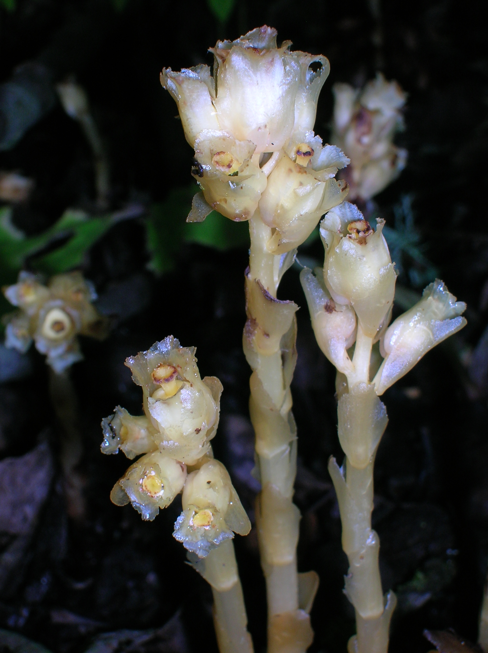 pollinated Yellow bird's nest or Dutchman's pipe, Spier's Old School Grounds, Beith, North Ayrshire, Scotland